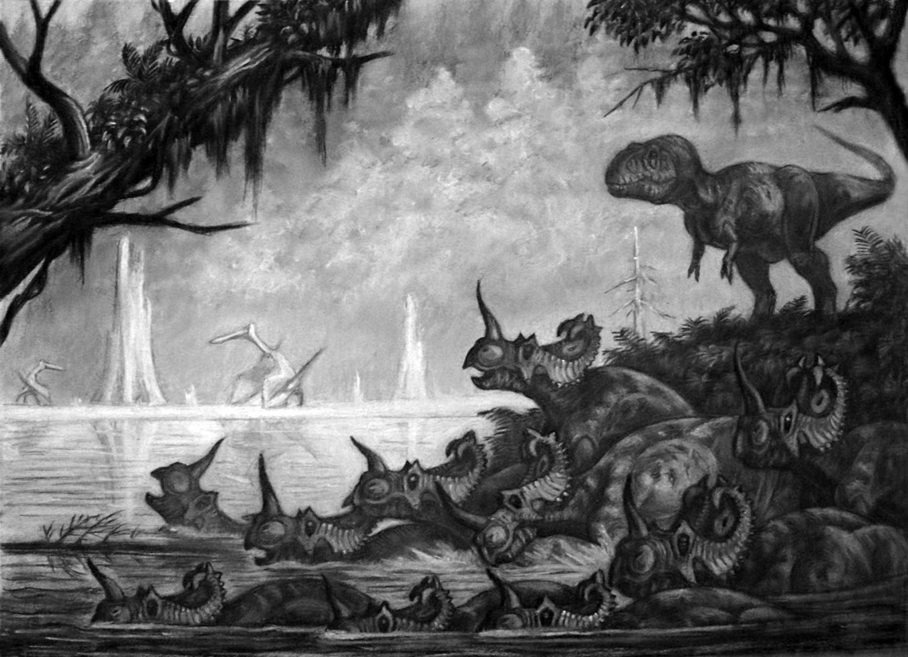 Centrosaurus herd swimming as Daspletosaurus watches